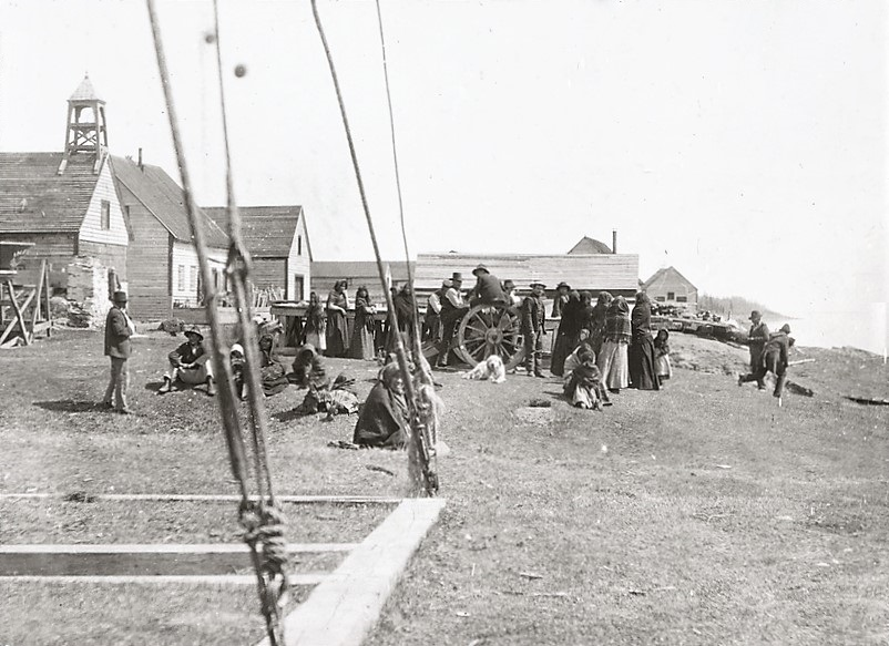 Group of people in front of buildings at Moose Factory, Hudson Bay